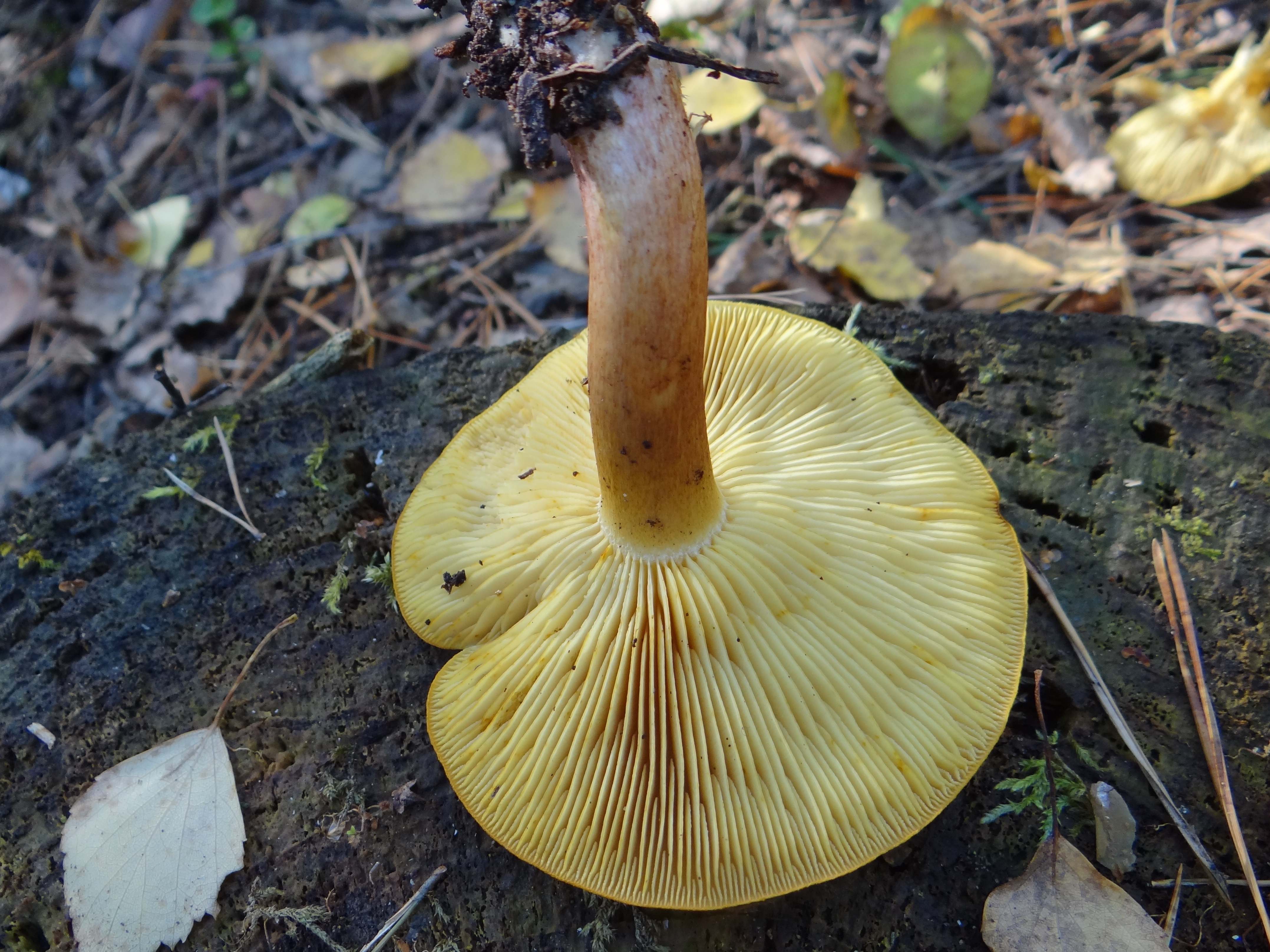 Tricholomopsis rutilans